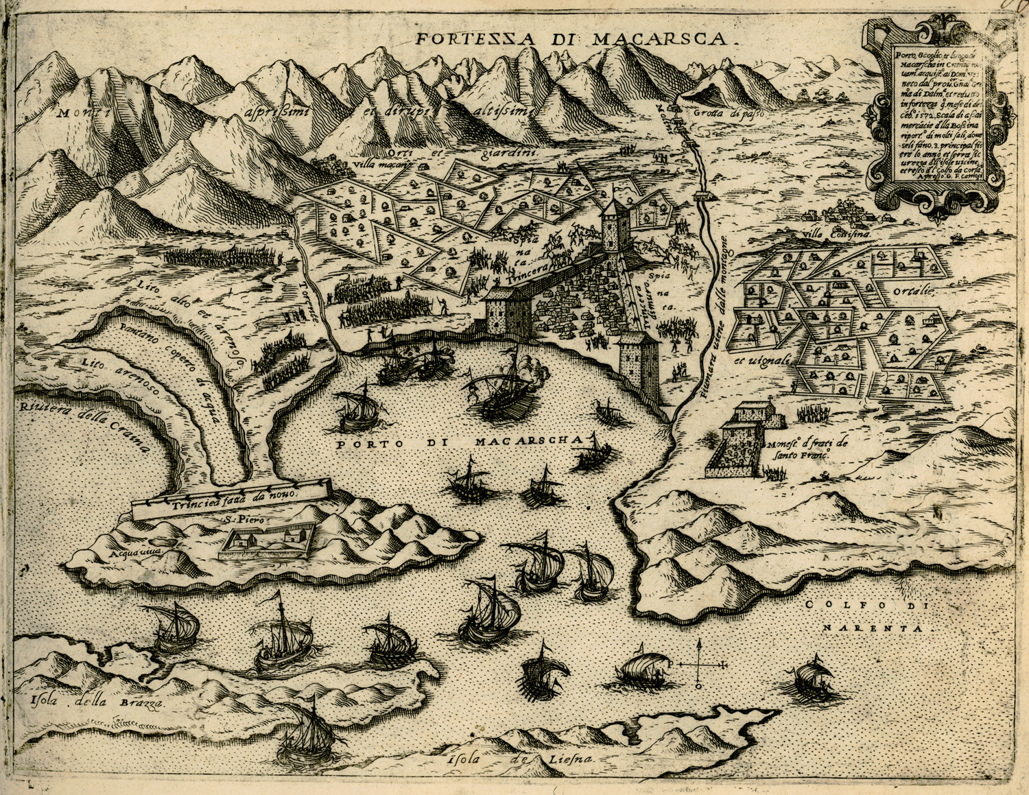 Giovanni Francesco Camocio. Isole famose porti, fortezze, e terre maritime sottoposte alla Ser.ma Sig.ria di Venetia, ad altri Principi Christiani, et al Sig.or Turco, Venice, alla libraria del segno di S.Marco (1574)